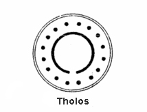 Tholos temple plan